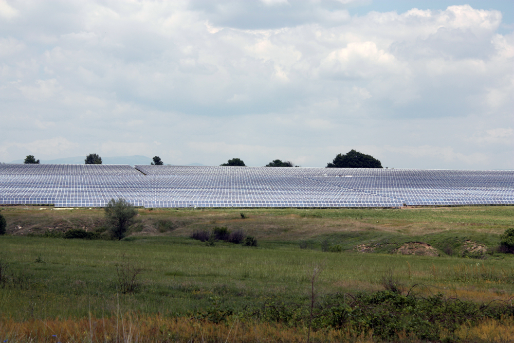 photovoltaic power station in Sbor, Bulgaria